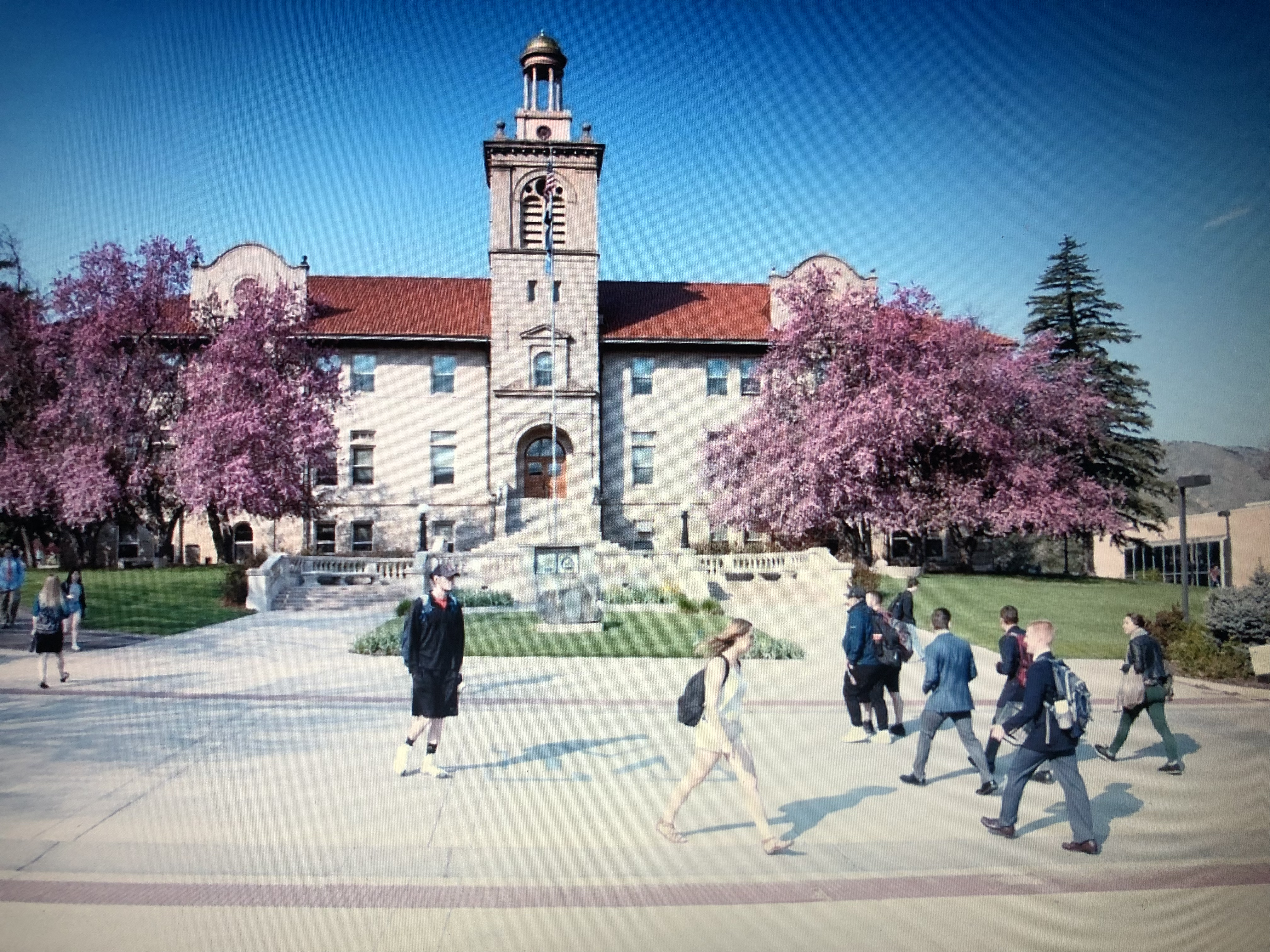 co mines